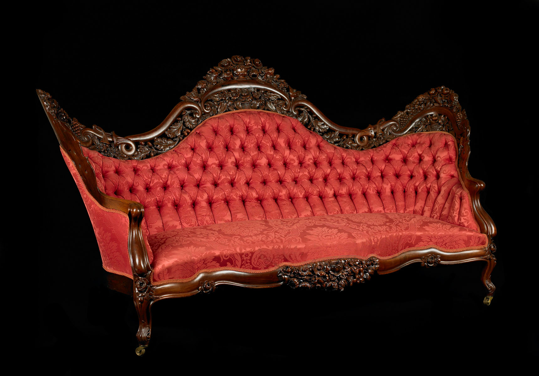 A sofa with deep buttoned upholstery back, crafted by John Henry Belter in the Rococo Revival style.